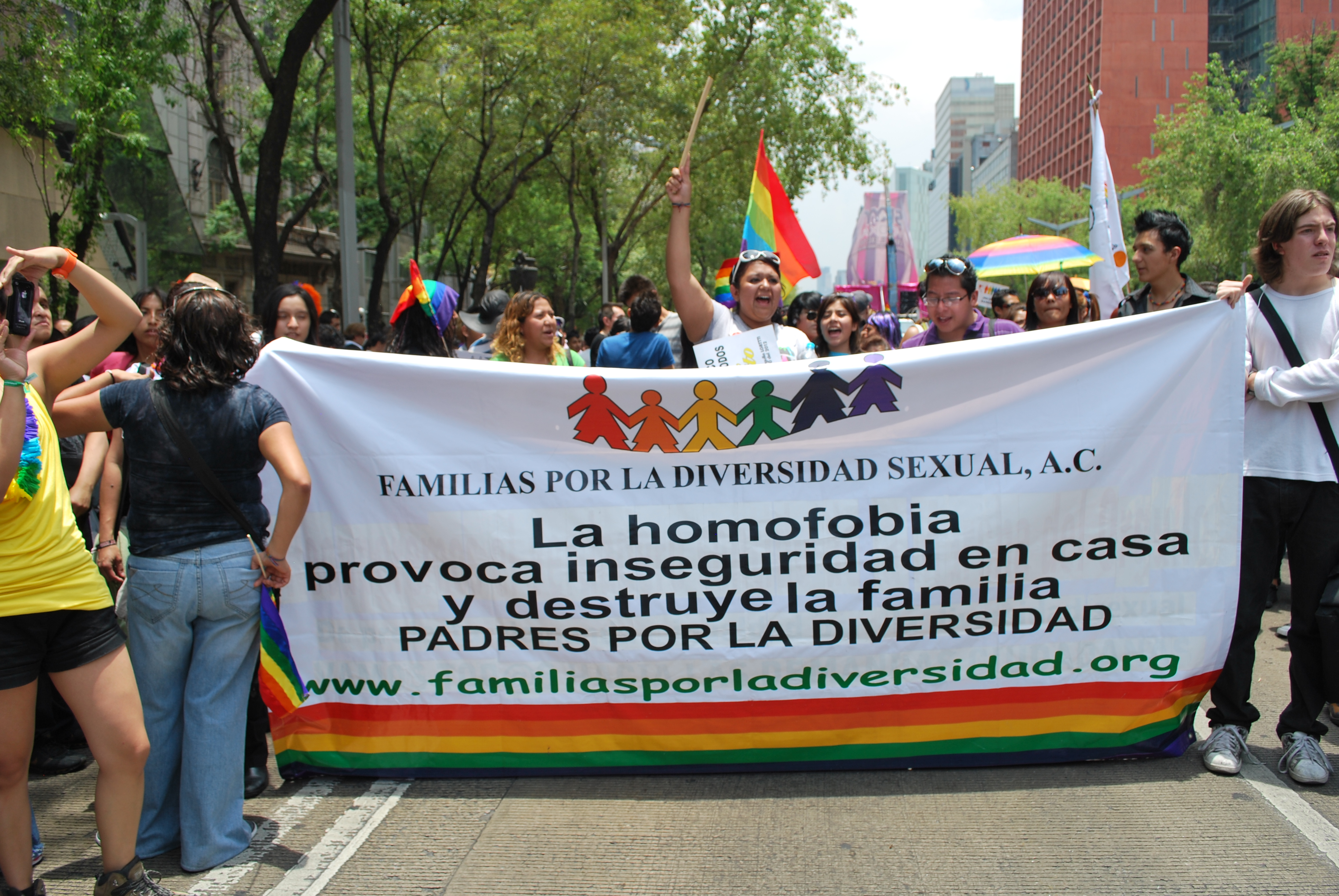 Family support at the 2012 Marcha Gay in Mexico City